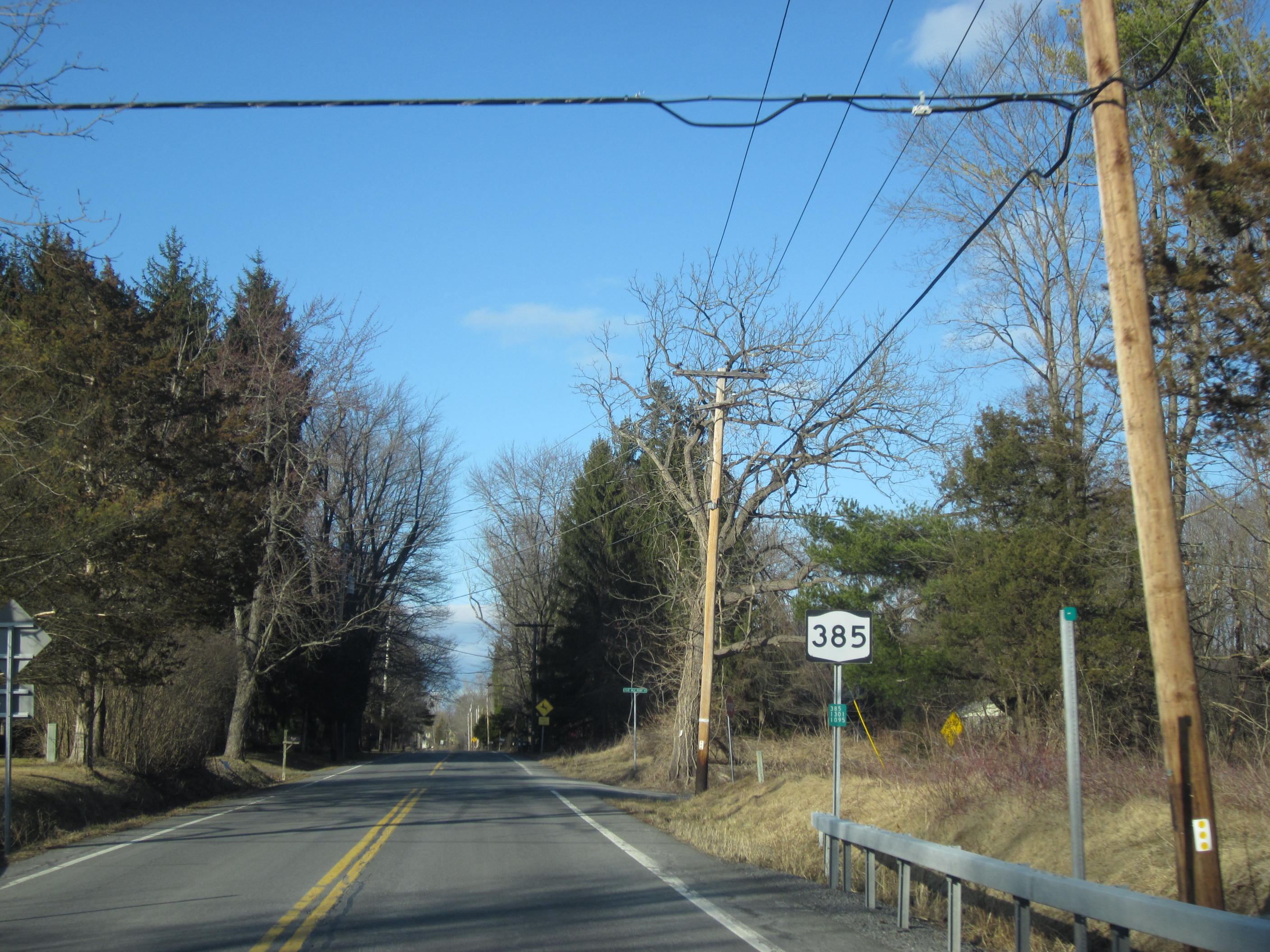 New York State Route 385 north of the village of Athens, New York.